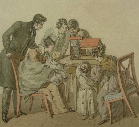 Römer family National Library, Warsaw